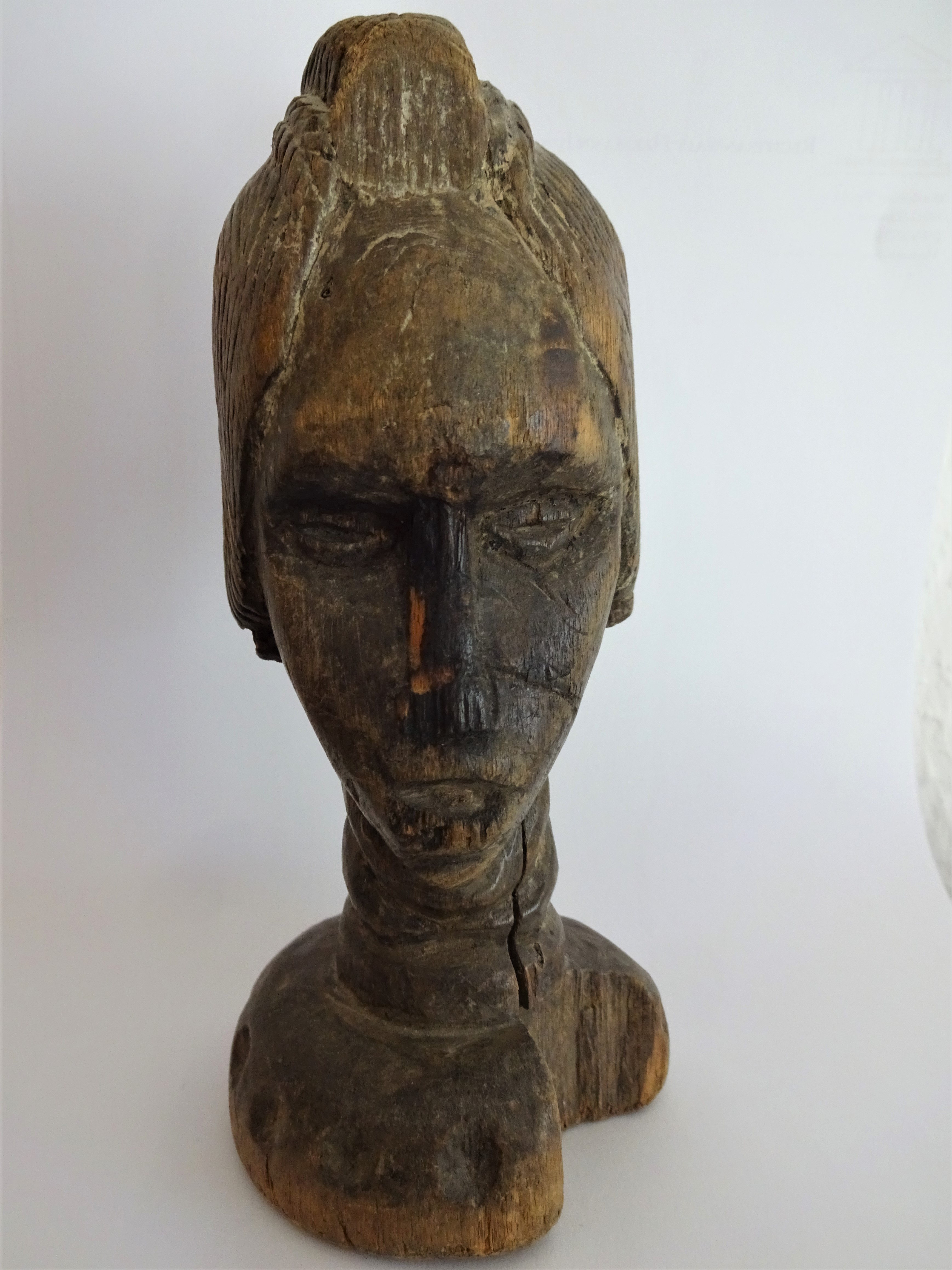 wooden sculpture, head, Liberia, 19th century, private collection